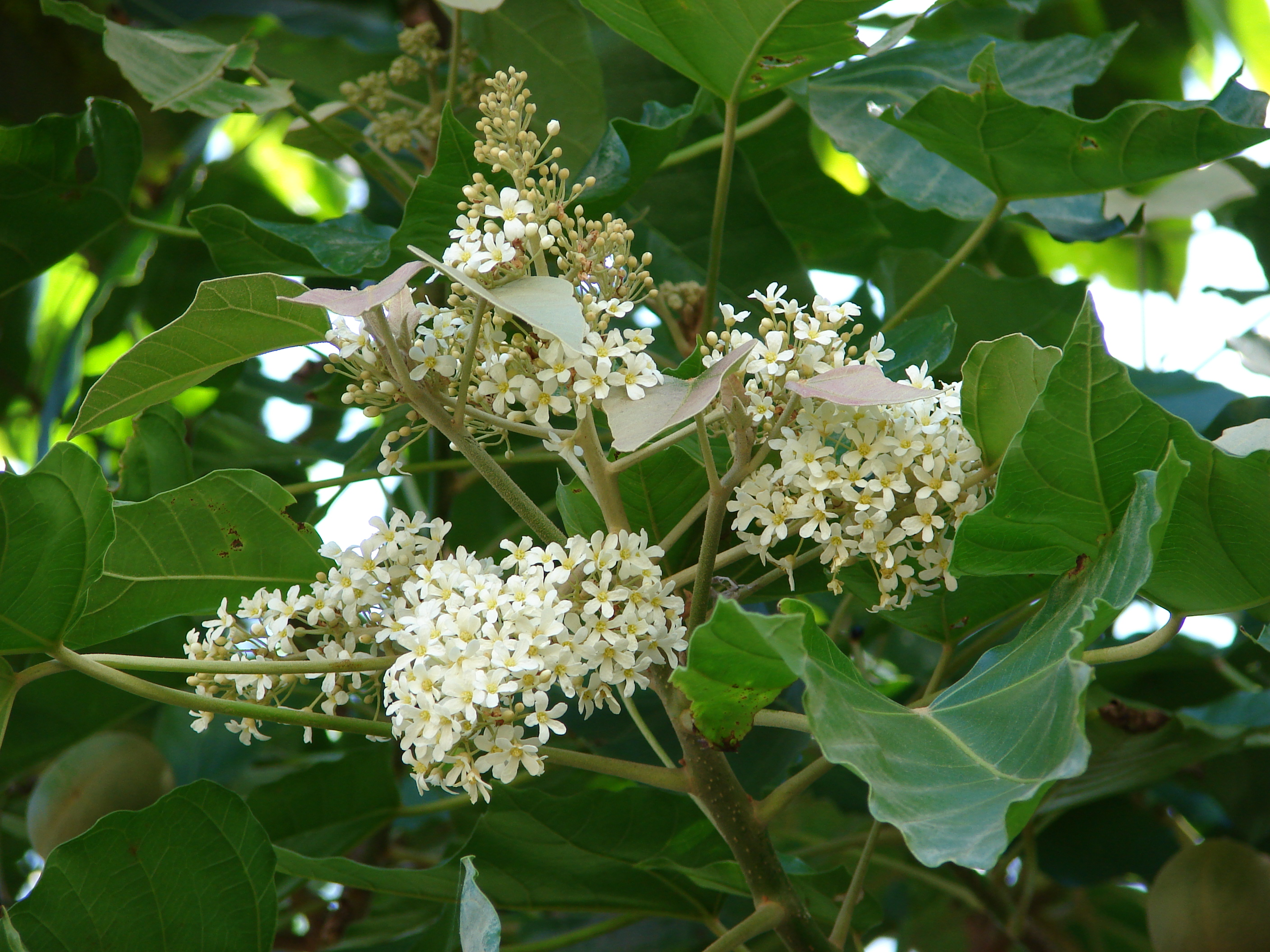 Aleurites moluccana (flowers and leaves). Location: Maui, Waihee